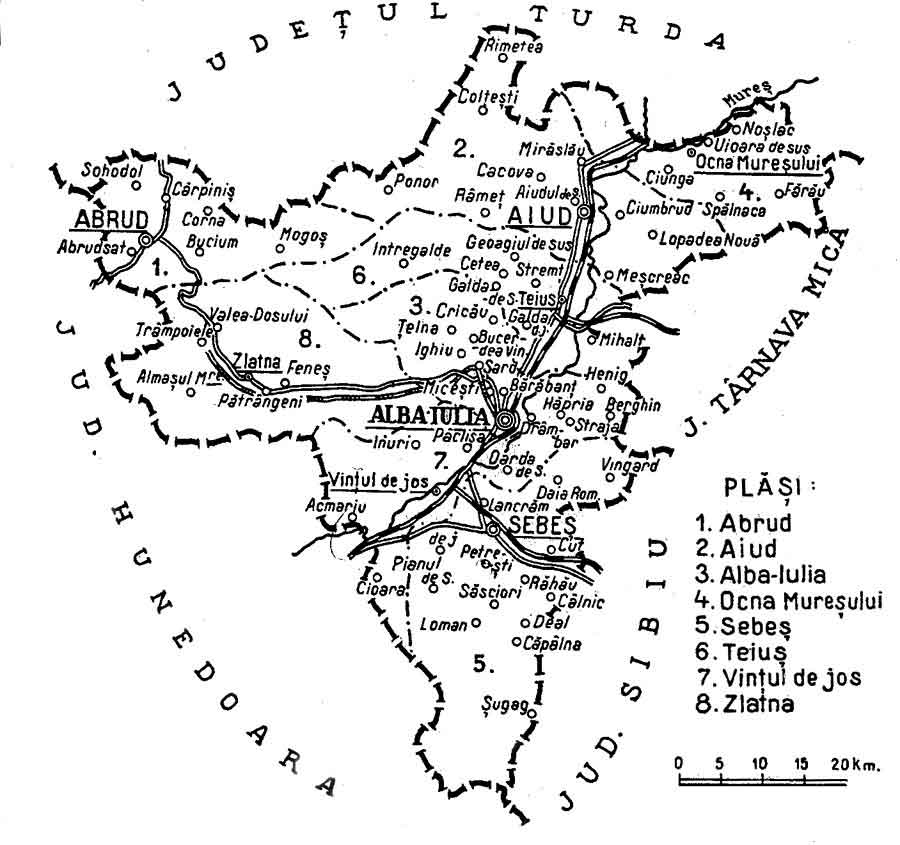 Map of Alba interwar county, Kingdom of Romania (1938).